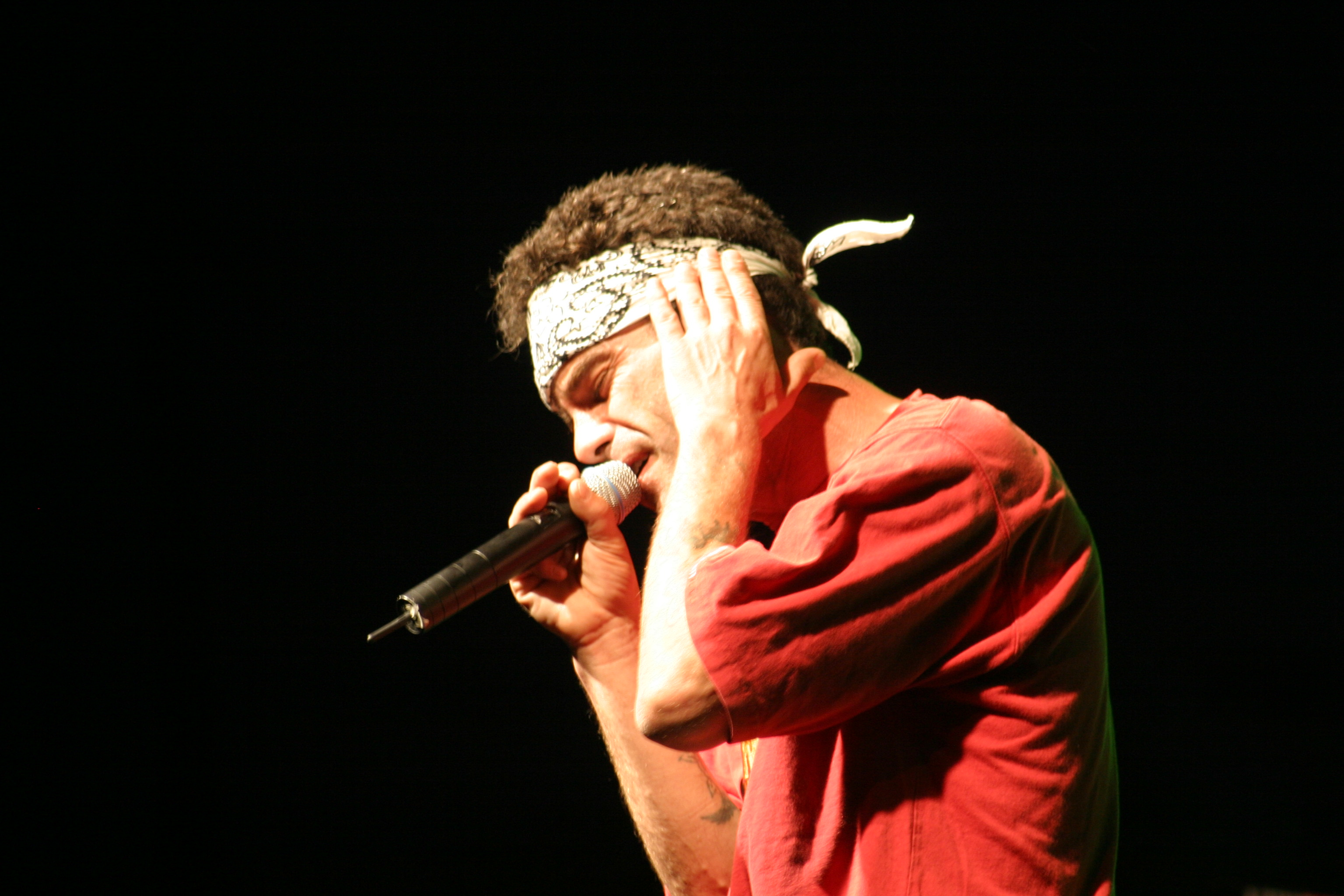 Pierpoljak